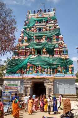 Tirumananjeri utvakanathar temple திருமணஞ்சேரி உத்வாகநாதர் கோயில்